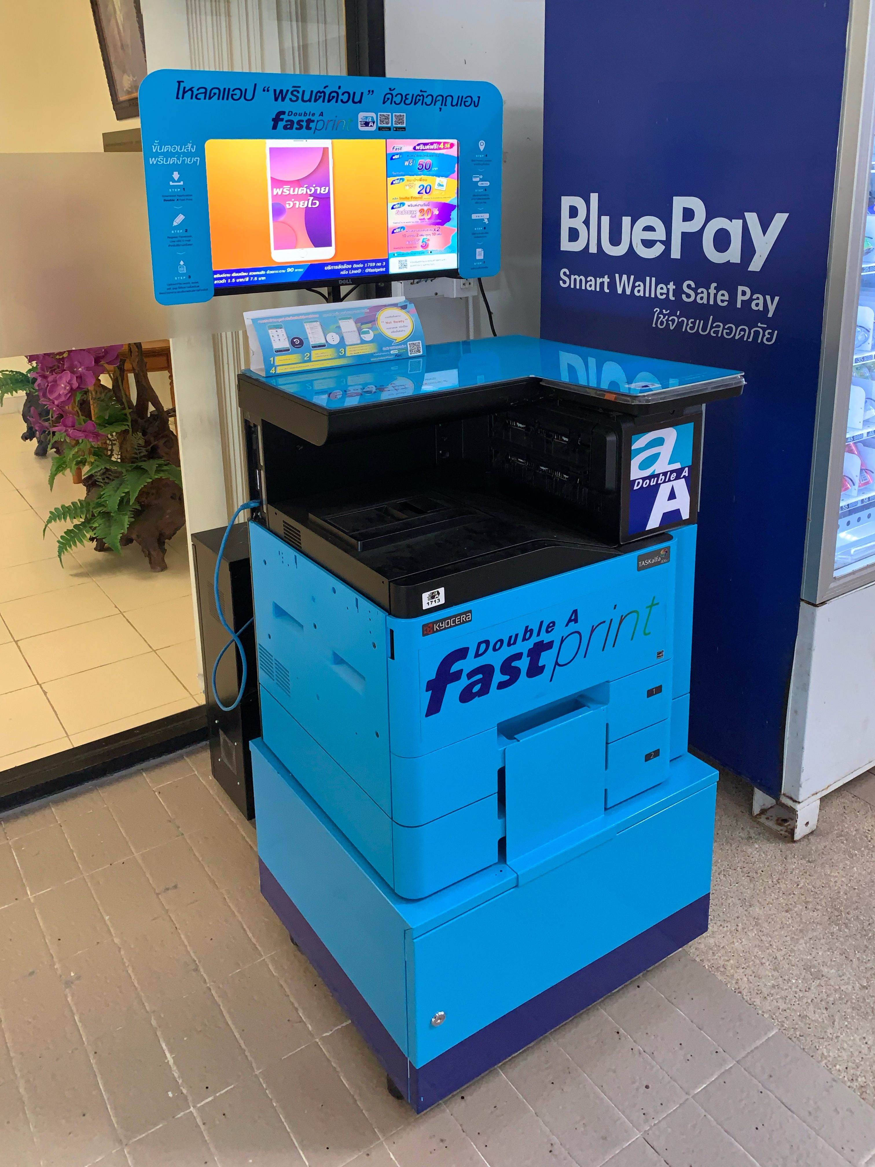 Double-A Fast Print Machine and Service